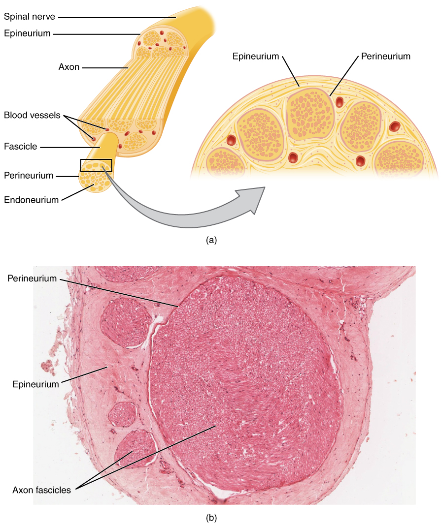 Illustration from Anatomy & Physiology, Connexions Web site. Jun 19, 2013.